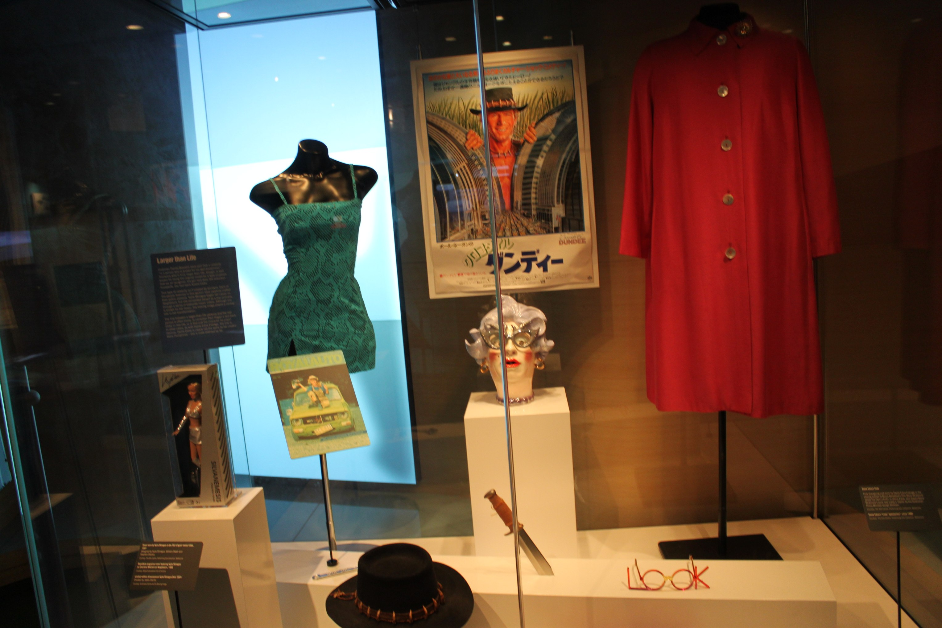 Dame Edna Everage, Kylie Minogue, and Crocodile Dundee memorabilia displayed at the Australian Centre for the Moving Image, Melbourne, Australia.